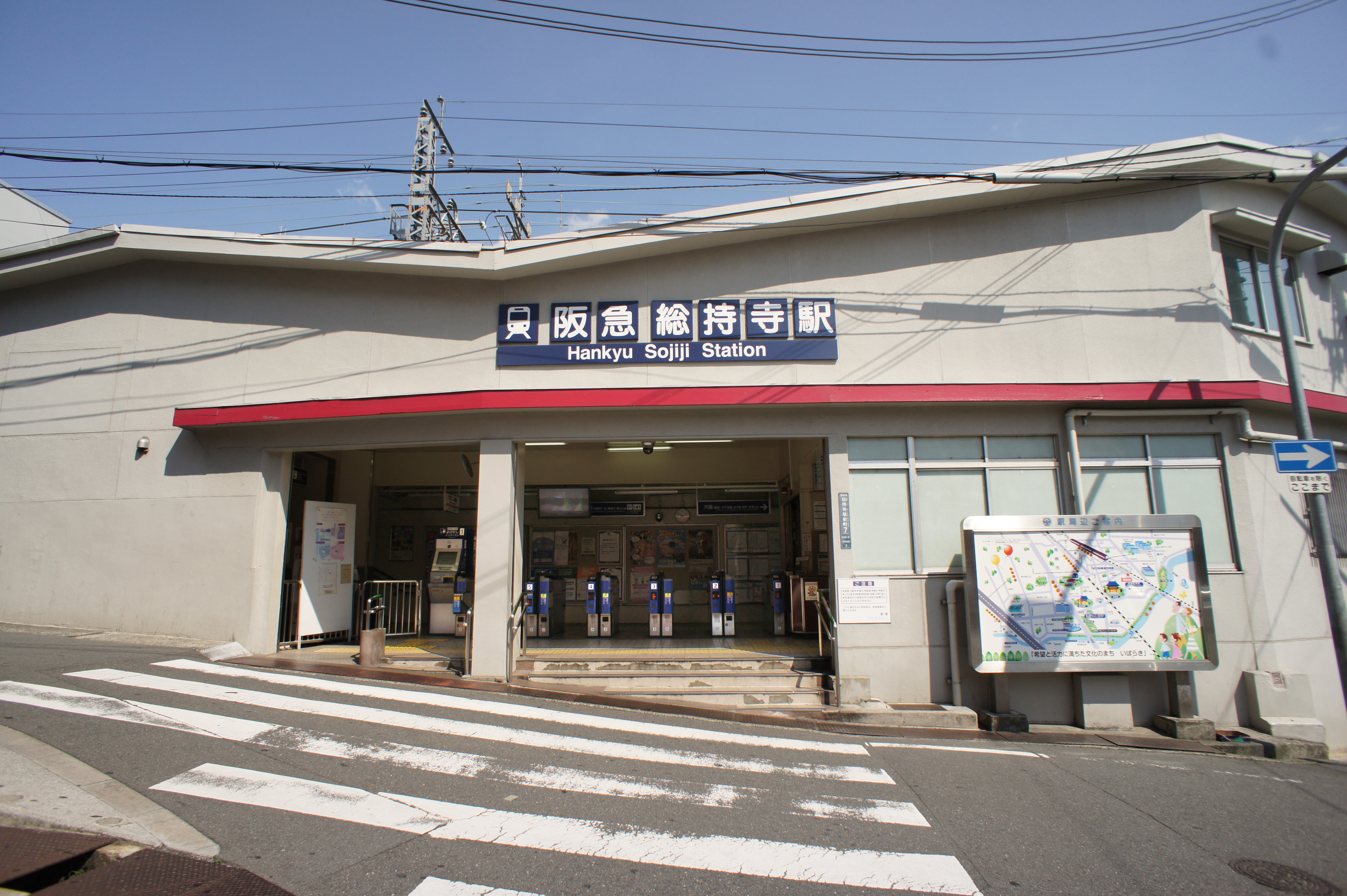 Hankyu Railway Sojiji Station (Wast Gate), 7-3 Sojiji-Ekimaecho, Ibaraki City, Osaka, Japan